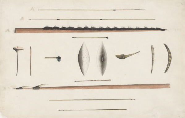 A digital image of 1 watercolour ; 30 x 46.3 cm. titled: Aboriginal_hunting_implements_and_weapons.